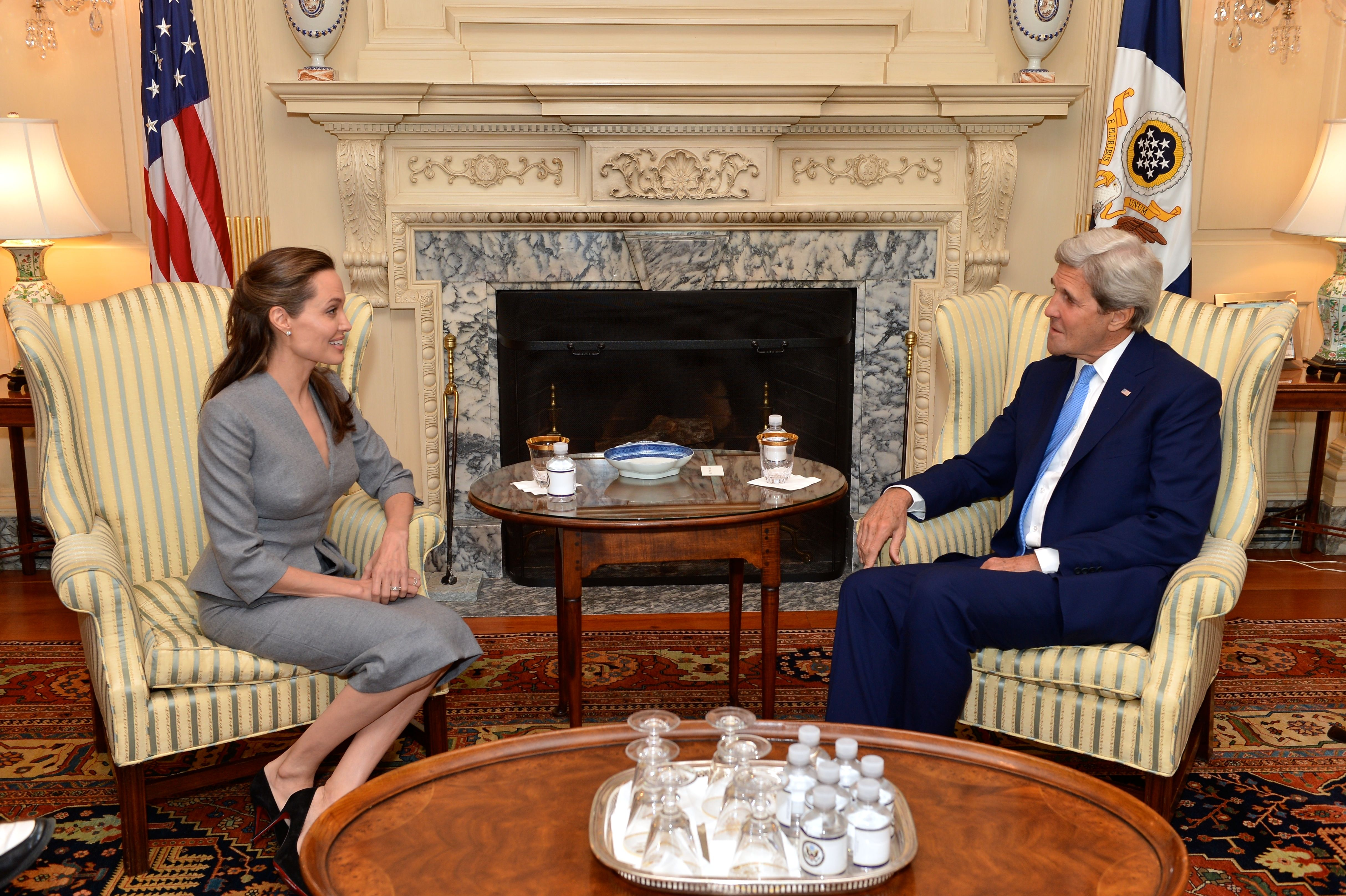 U.S. Secretary of State John Kerry meets with United Nations High Commissioner for Refugees Special Envoy Angelina Jolie Pitt at the U.S. Department of State in Washington D.C. on June 20, 2016. [State Department photo/ Public Domain]